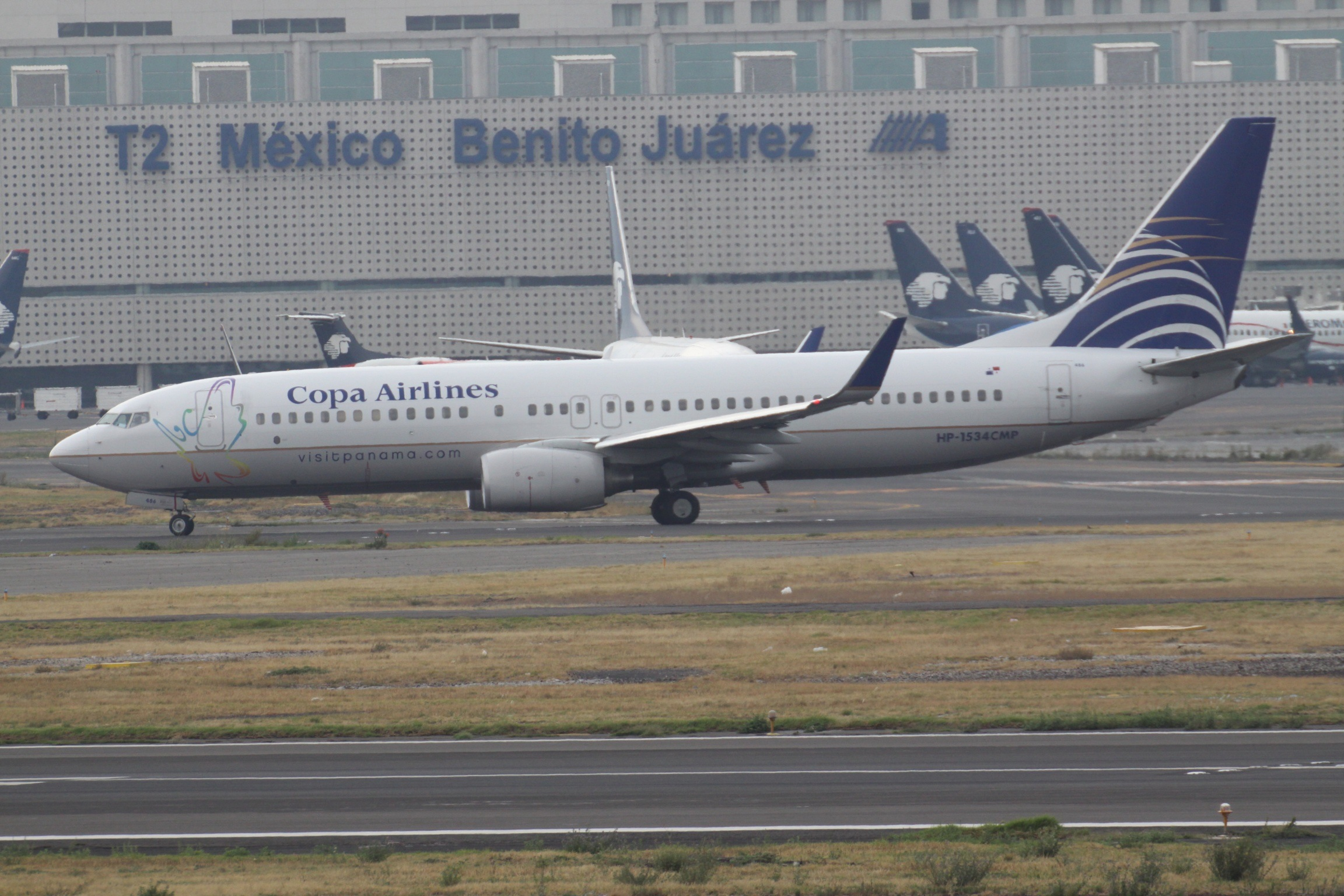 At Mexico City International Airport